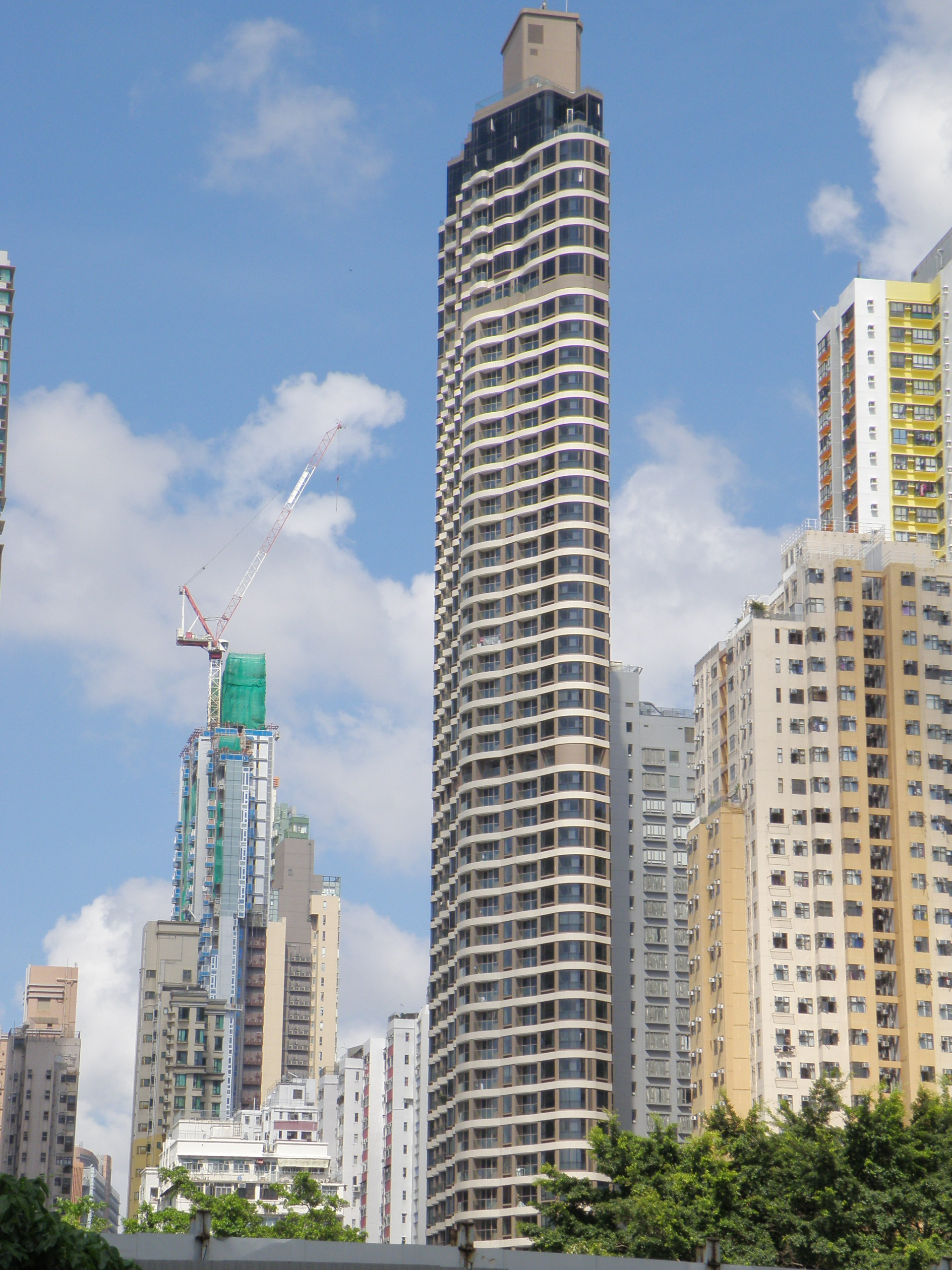 Cadogan in Kennedy Town, Hong Kong.